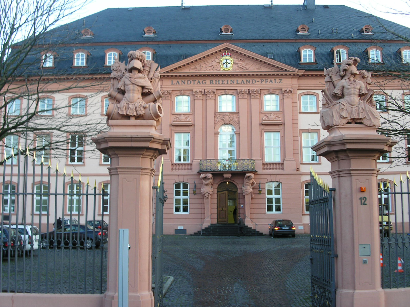 "Commandry of the Teutonic Knights" in Mainz, main gate, sculptures by Burkard Zamels